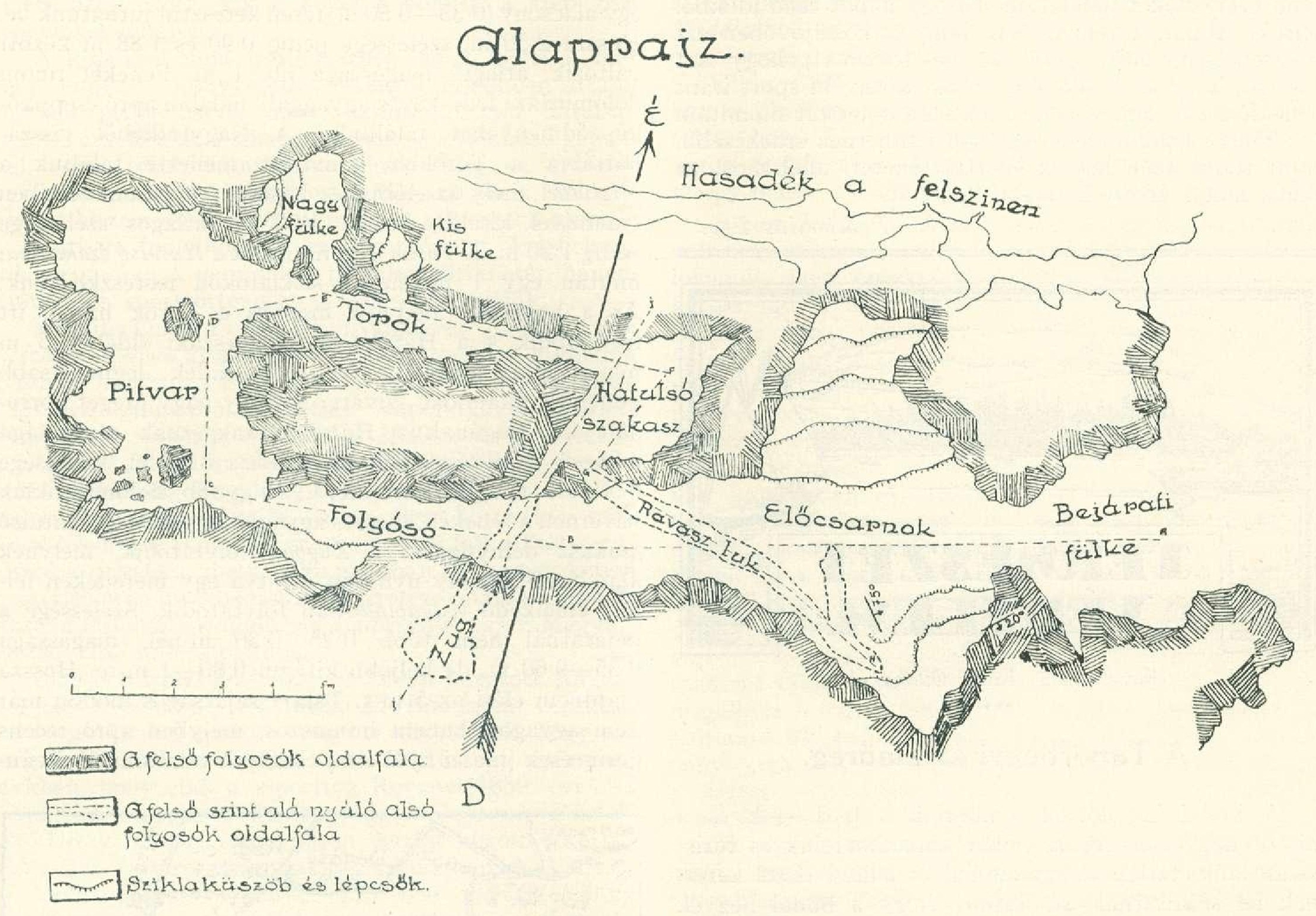 Map of Tábor-hegyi Cave.